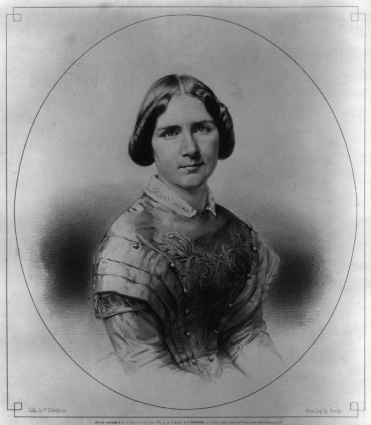 First known U.S. Lithograph of Jenny Lind as made on September 24, 1850. Copyrighted by D'Avignon based on a Poly Von Schneidau September 14, 1850 Daguerrotype. Original Lithograph is in the Library of Congress 1850s Lithograph Collection card number 2003664989